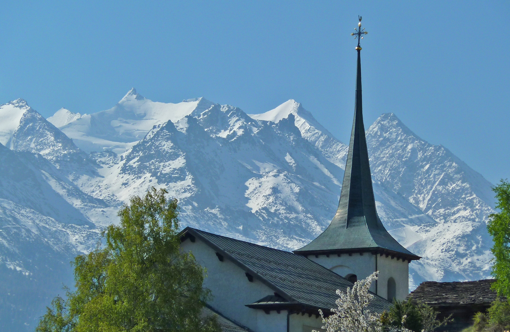 Zeneggen, Pfarrkirche